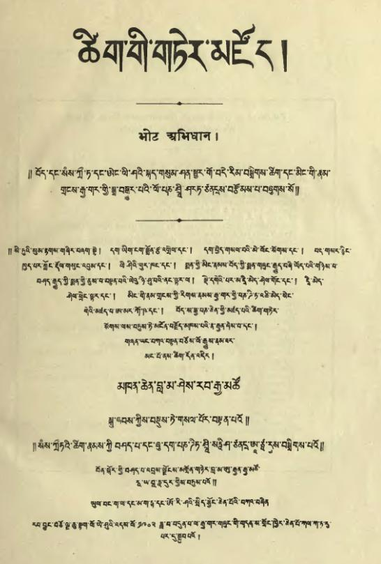 Front page of "A Tibetan-English dictionary, with Sanskrit synonyms.", in Tibetan script.